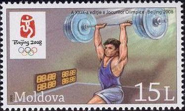 Stamp of Moldova